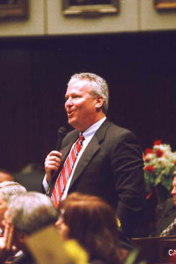 State Senator Buddy Dyer speaking in 2000